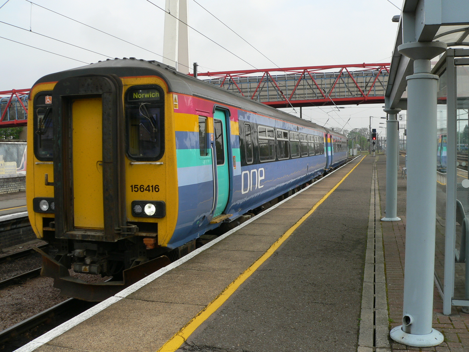 'one' Class 156 DMU 156416 arrives into platform 5 at Cambridge railway station with a service to Norwich.